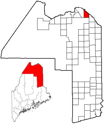 Adapted from U.S. Census Bureau maps (American FactFinder) and Wikipedia's ME county maps by Bumm13.